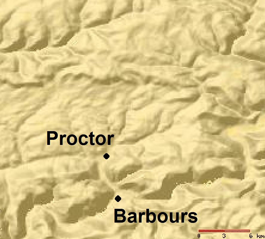 Relief Map of Plunketts Creek Watershed in Lycoming and Sullivan Counties, Pennsylvania, United States